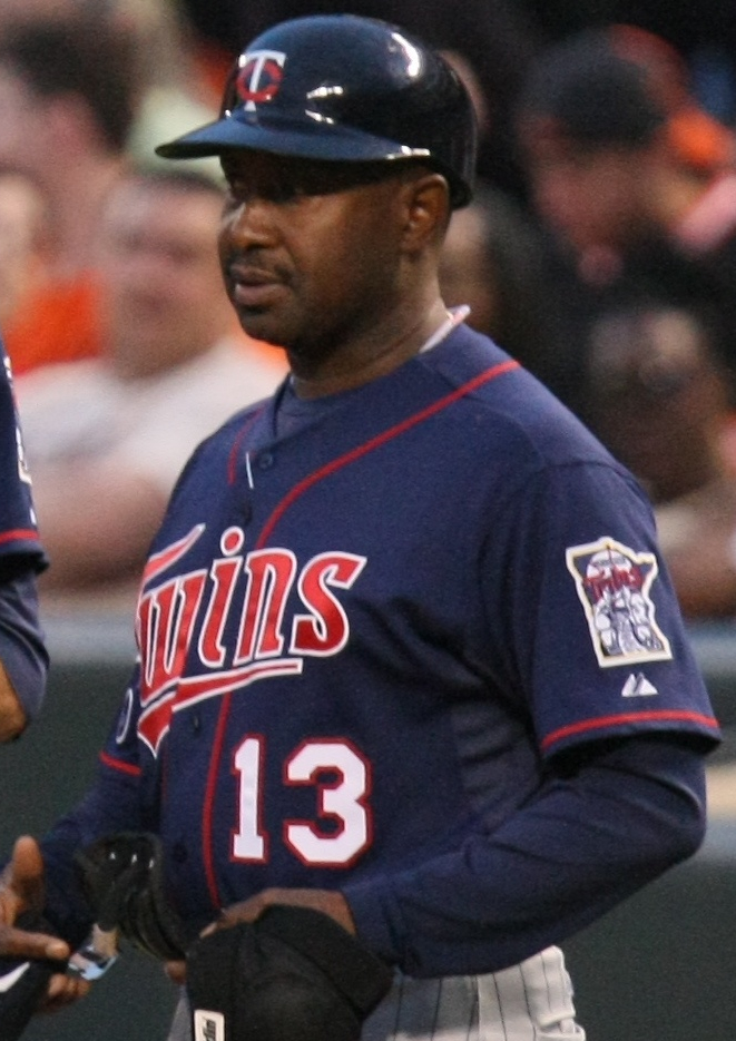 Minnesota Twins 1st base coach Jerry White - May 7, 2009.